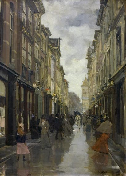 Spui street in the rain